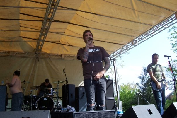 New Found Glory performing at Princeton University, 4th May 2008